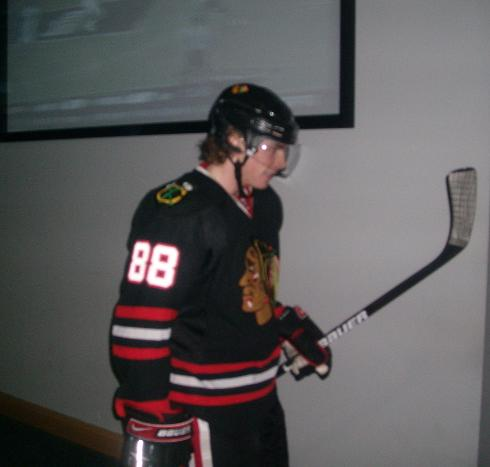 Kane in February 2009 in Tampa